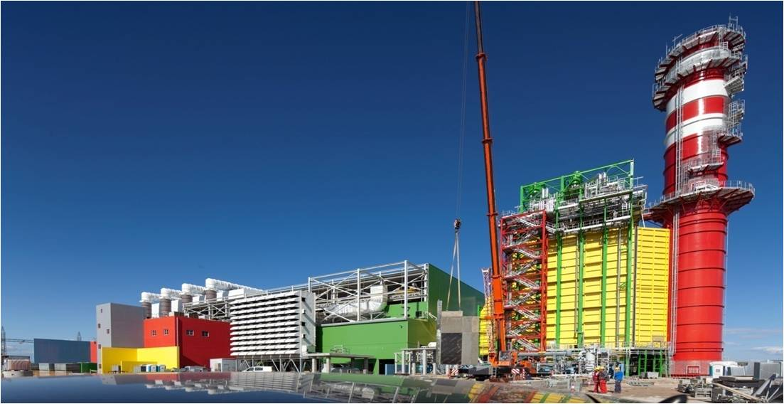 dfgdsf